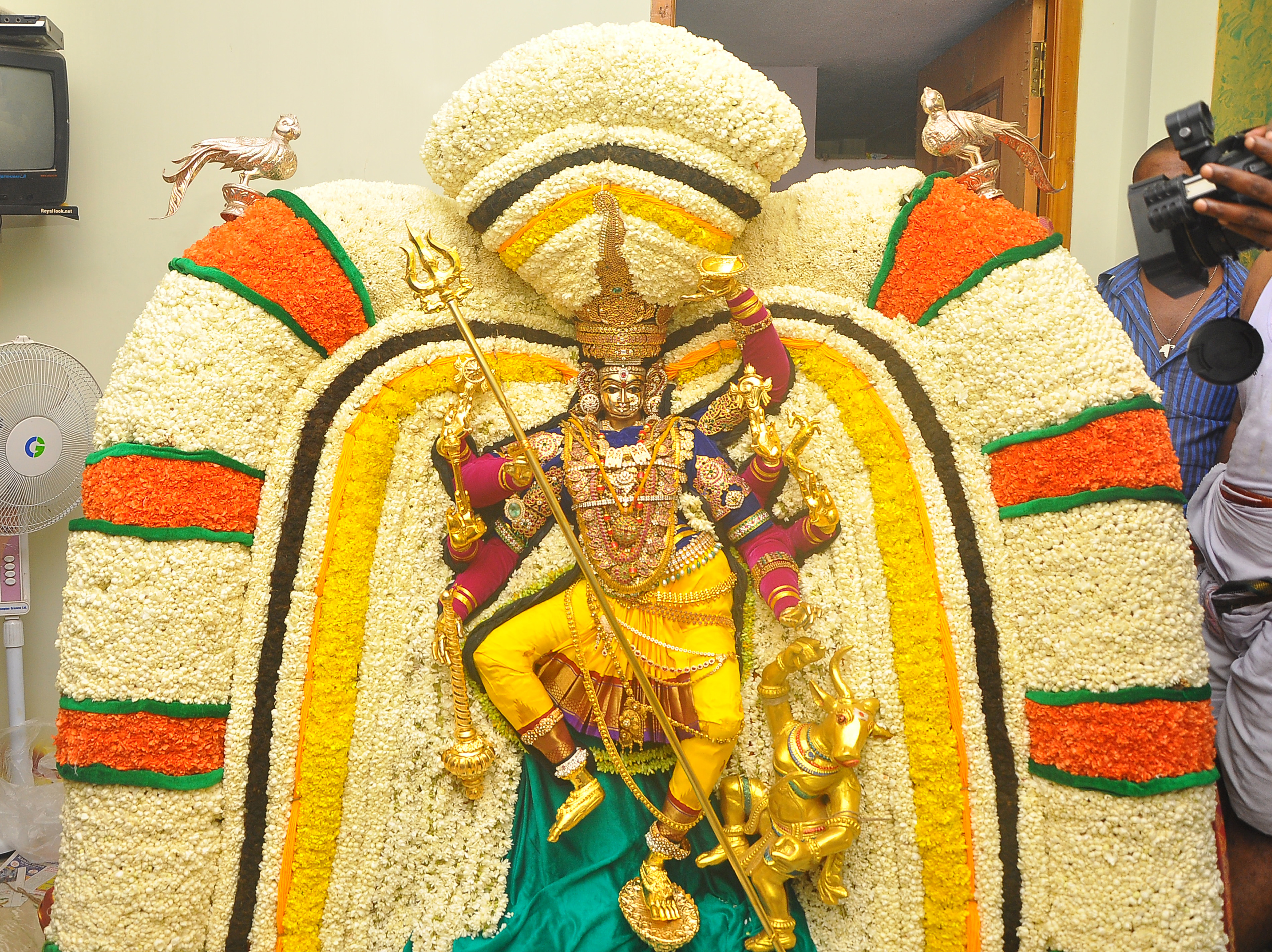 Muthumari Amman 2014